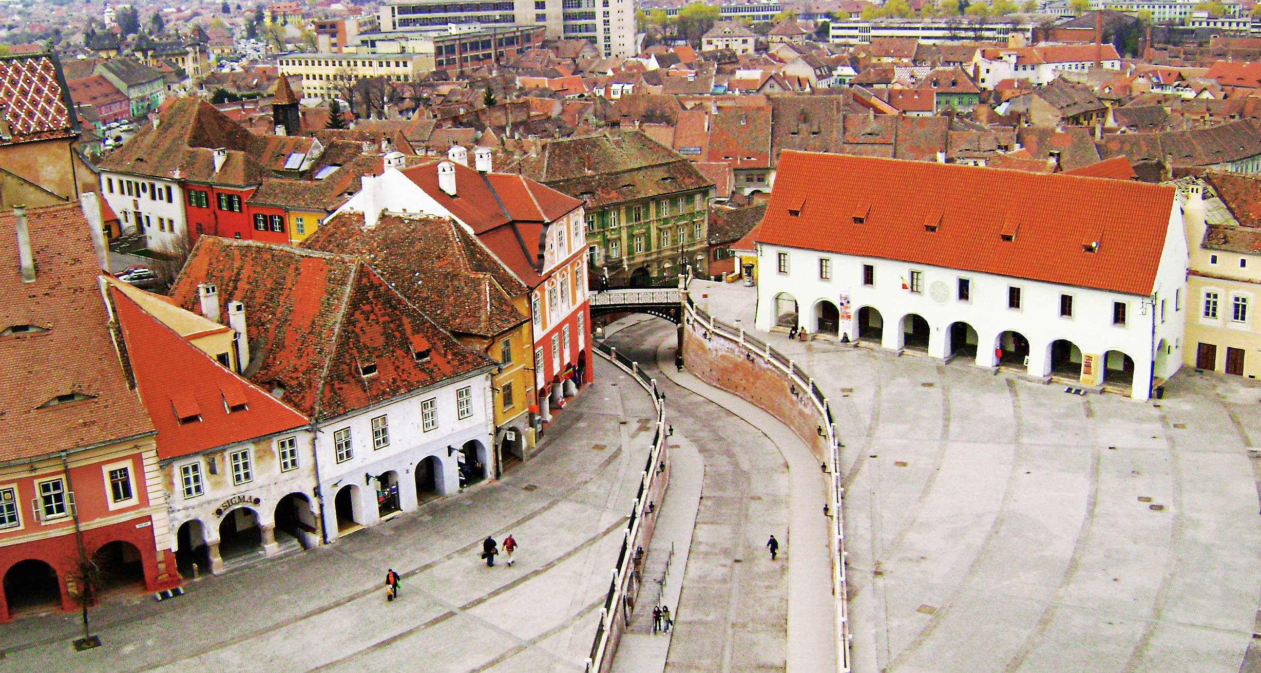 Lesser Square - the Liars Bridge